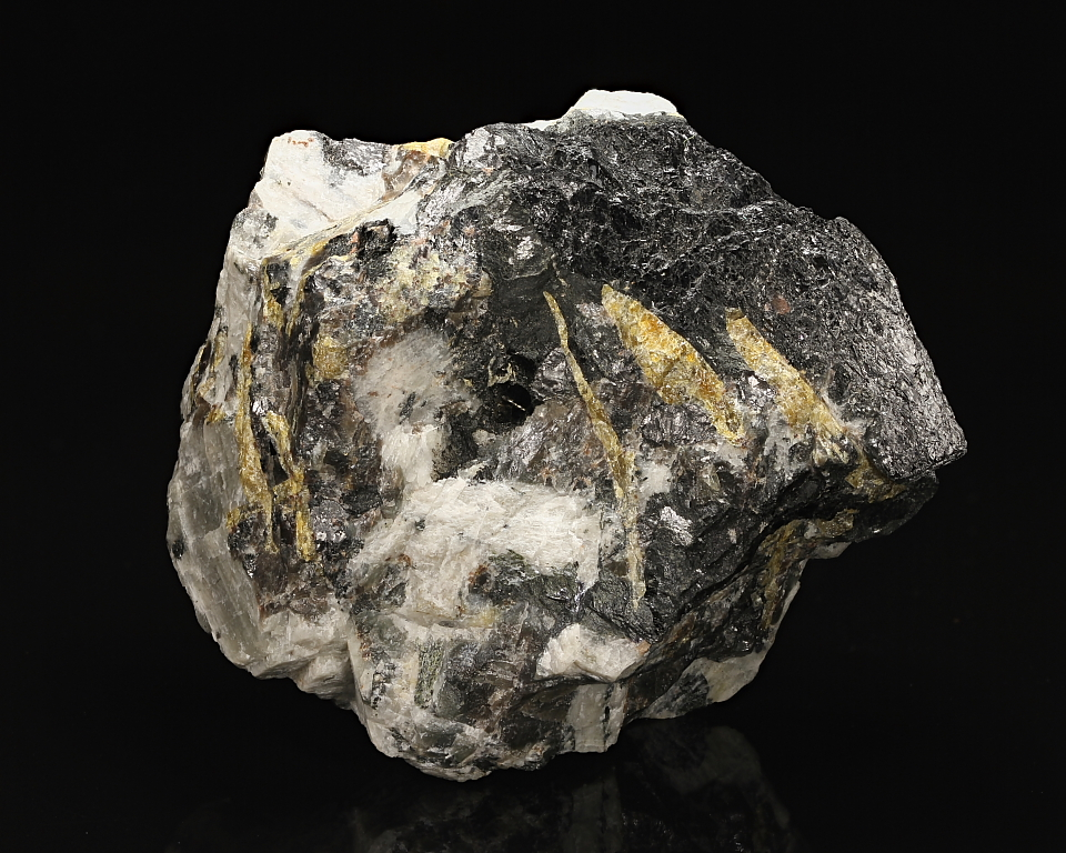 Rainbow Wöhlerite, Amphibole_Supergroup,_Microcline (Size: 90 mm x 75 mm x 45 mm) Locality: Tuften (Tuften 1 Quarry; Tuften 2 Quarry), Tvedalen, Larvik, Vestfold, Norway Many 2-4 cm wöhlerites in black amphibole and white microcline matrix.